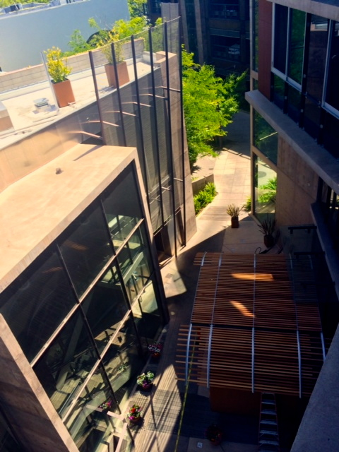 The HouseArc is a small dwelling designed by Joseph Bellomo Architects in Palo Alto, CA.